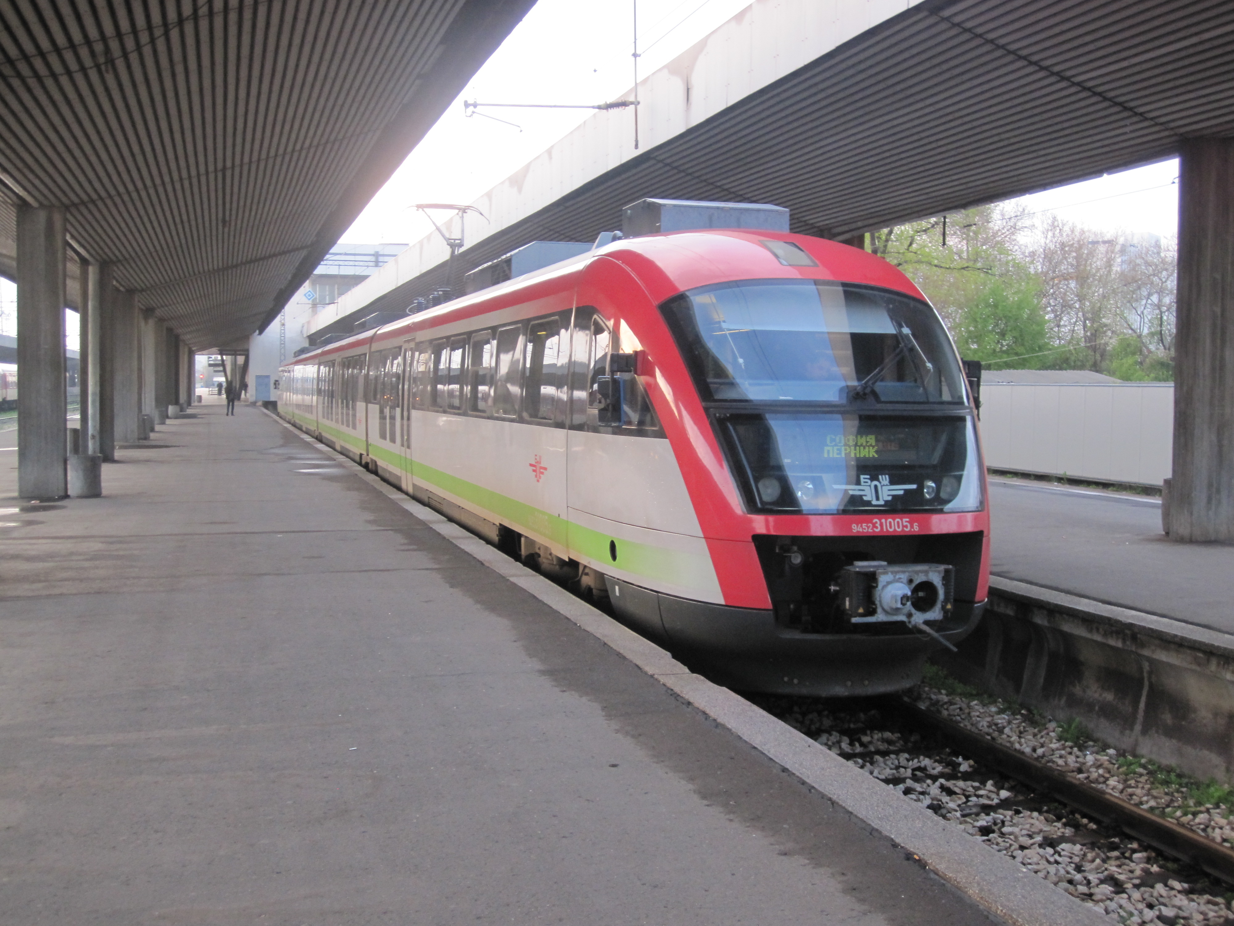 These modern Desiro EMUs built by Siemens are the new look to many European railways. Bulgaria has joined in by ordering many sets to replace older EMUs and hauled trains on local and regional services. Seen at Sofia, 31005 adds a little colour to the rather sparse looking station on a rather hazy morning on 21 April 2010.